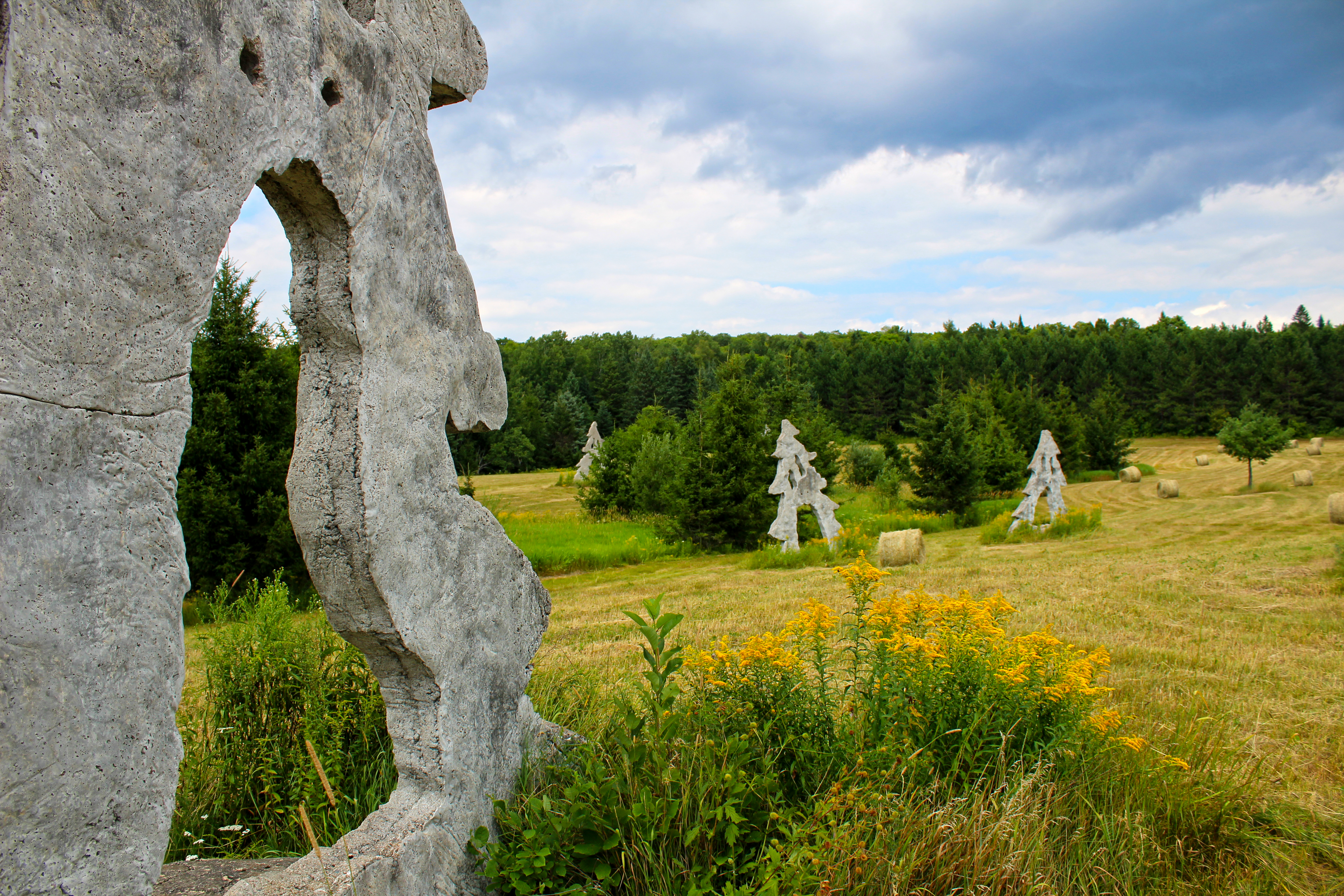 Concrete Sculptures